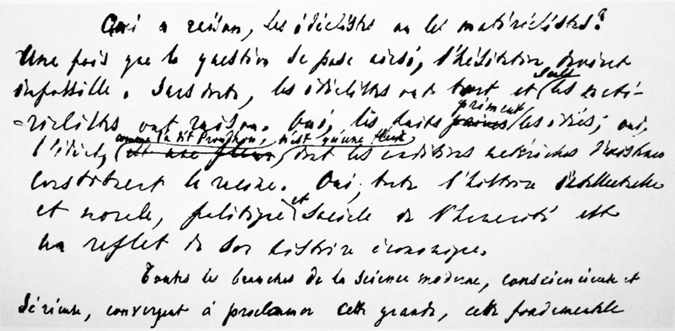 Manuscript of the beginning of God and the State.